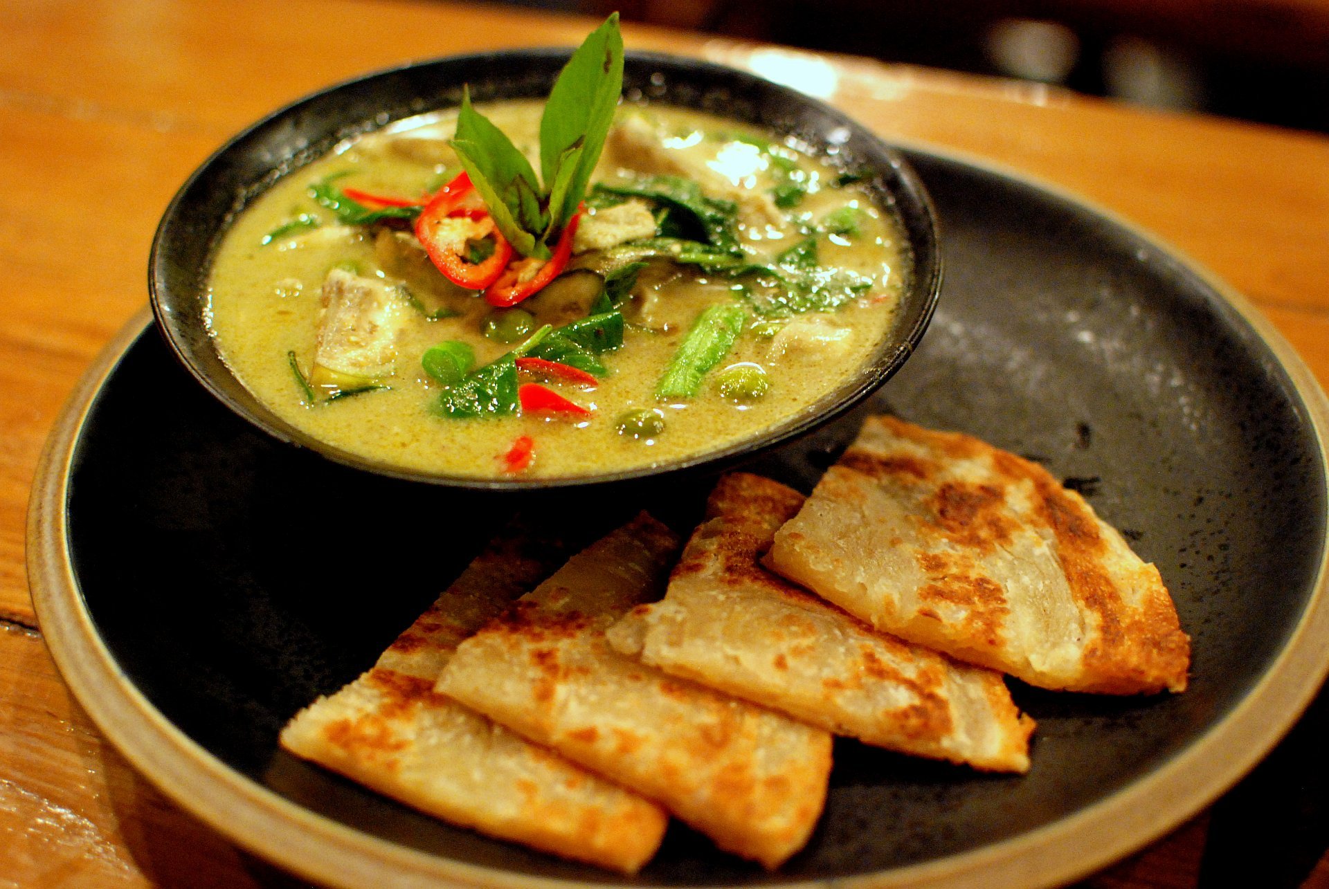 Kaeng khiaowan kai (Thai script: แกงเขียวหวานไก่) is Thai green curry with chicken. It is sometimes served with roti (fried Indian style flat bread) as seen here on this photo. Very popular is to see it served with khanom chin (Thai script: ขนมจีน) which are freshly made Thai rice noodles. It is often also eaten as a dish with steamed (white) rice. This particular green curry was made, in addition to sliced chicken breast, with shredded kaffir lime leaves (bai makrut), yardlong beans, quartered Thai eggplant (makhuea pro) and pea-sized eggplant (makhuea phuang), and garnished with holy basil (bai kraphao) and sliced large red chillies for colour.